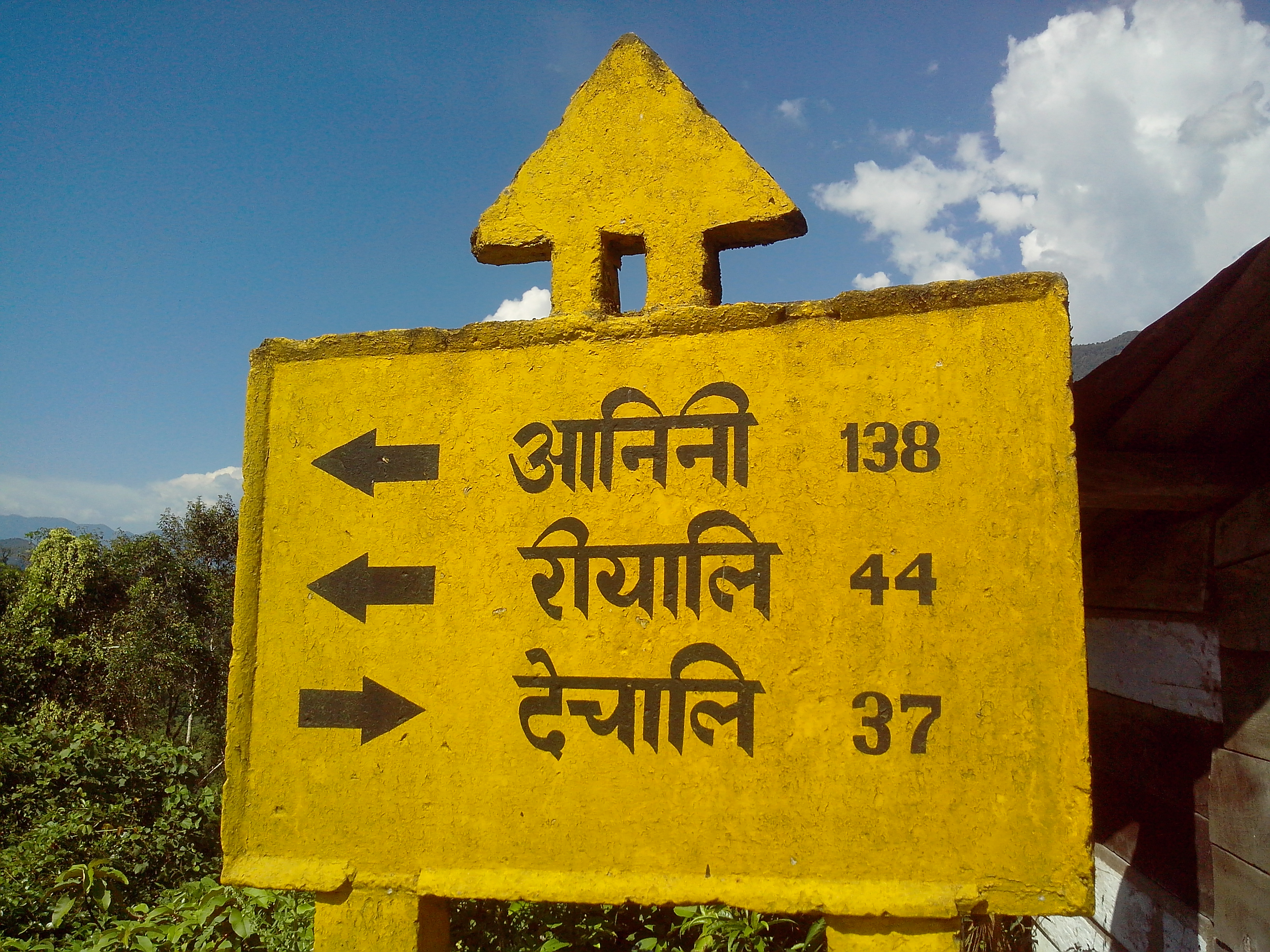 Road sign at Hunli, Arunchal Pradesh, India